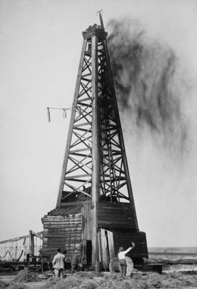 Oil well gusher in 1922 — Okemah, Oklahoma. Credits Public domain photograph taken in 1922-from national archives.